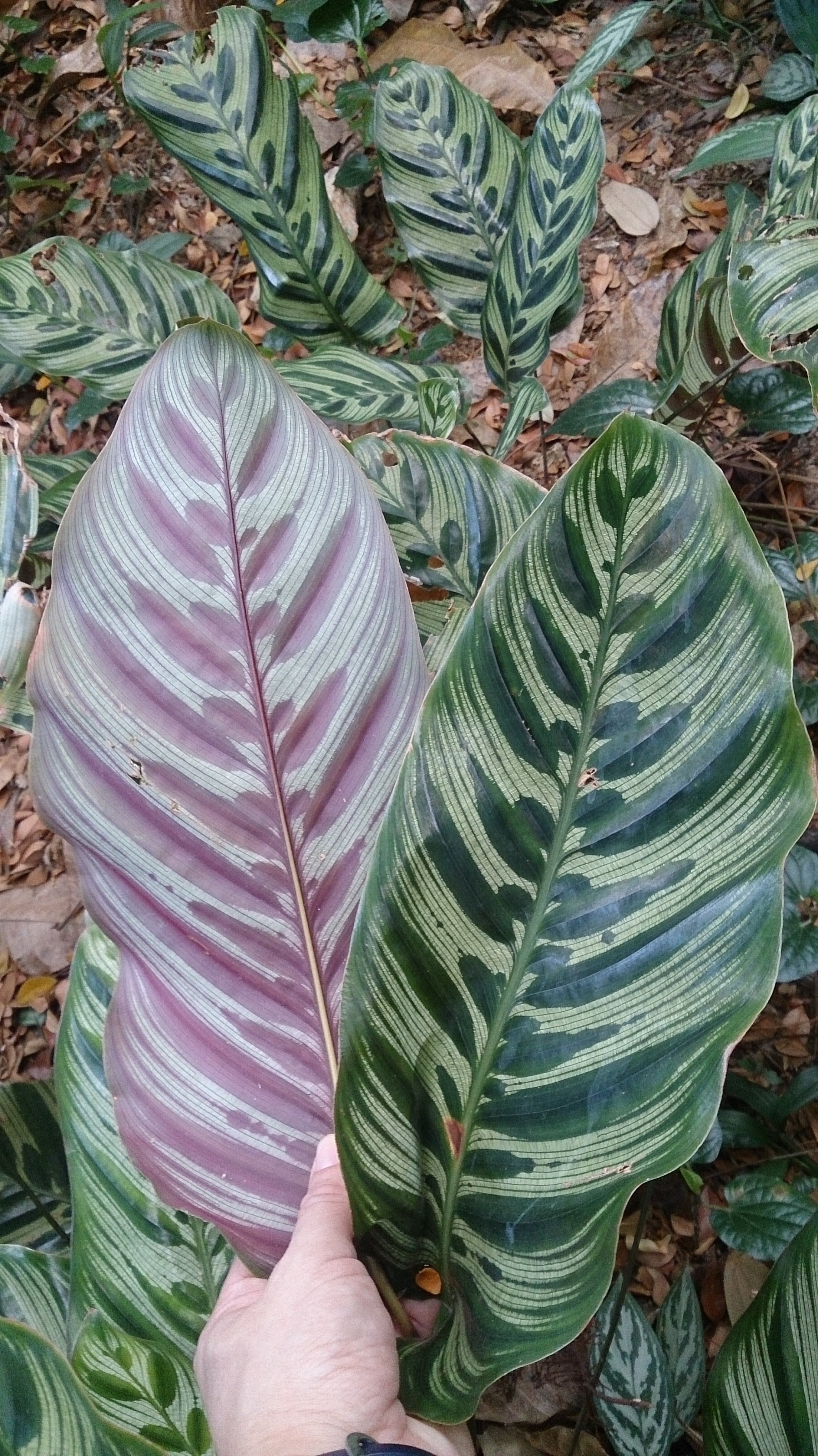 Calathea makoyana. Common name: Peacock Plant.